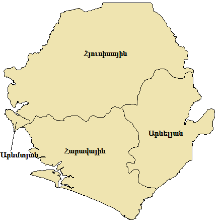 Provinces of Sierra Leone